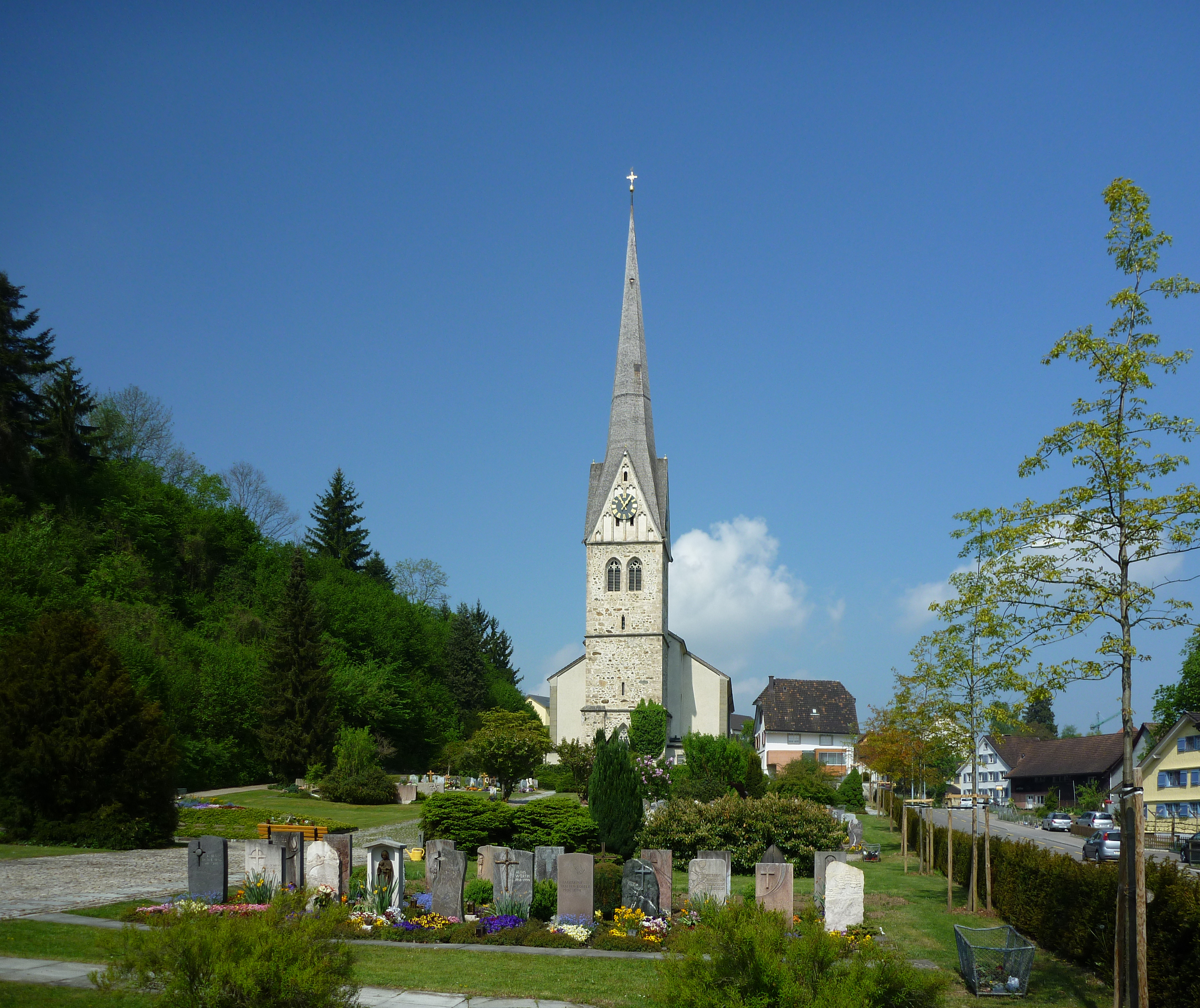 The church in Henau, a part of the Swiss village Uzwil. The church tower is the village's oldest building.